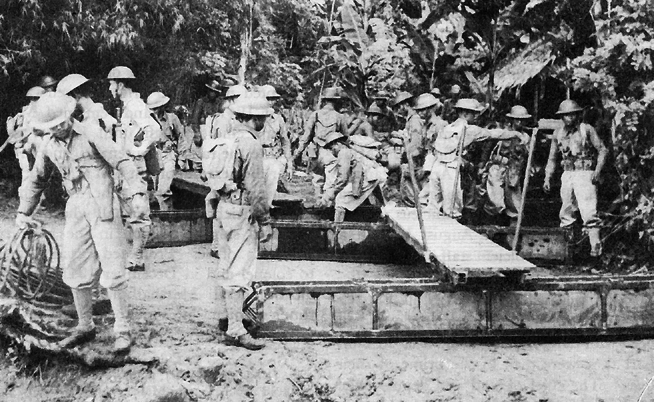 Philippine Scouts engineers preparing sections for a pontoon bridge.